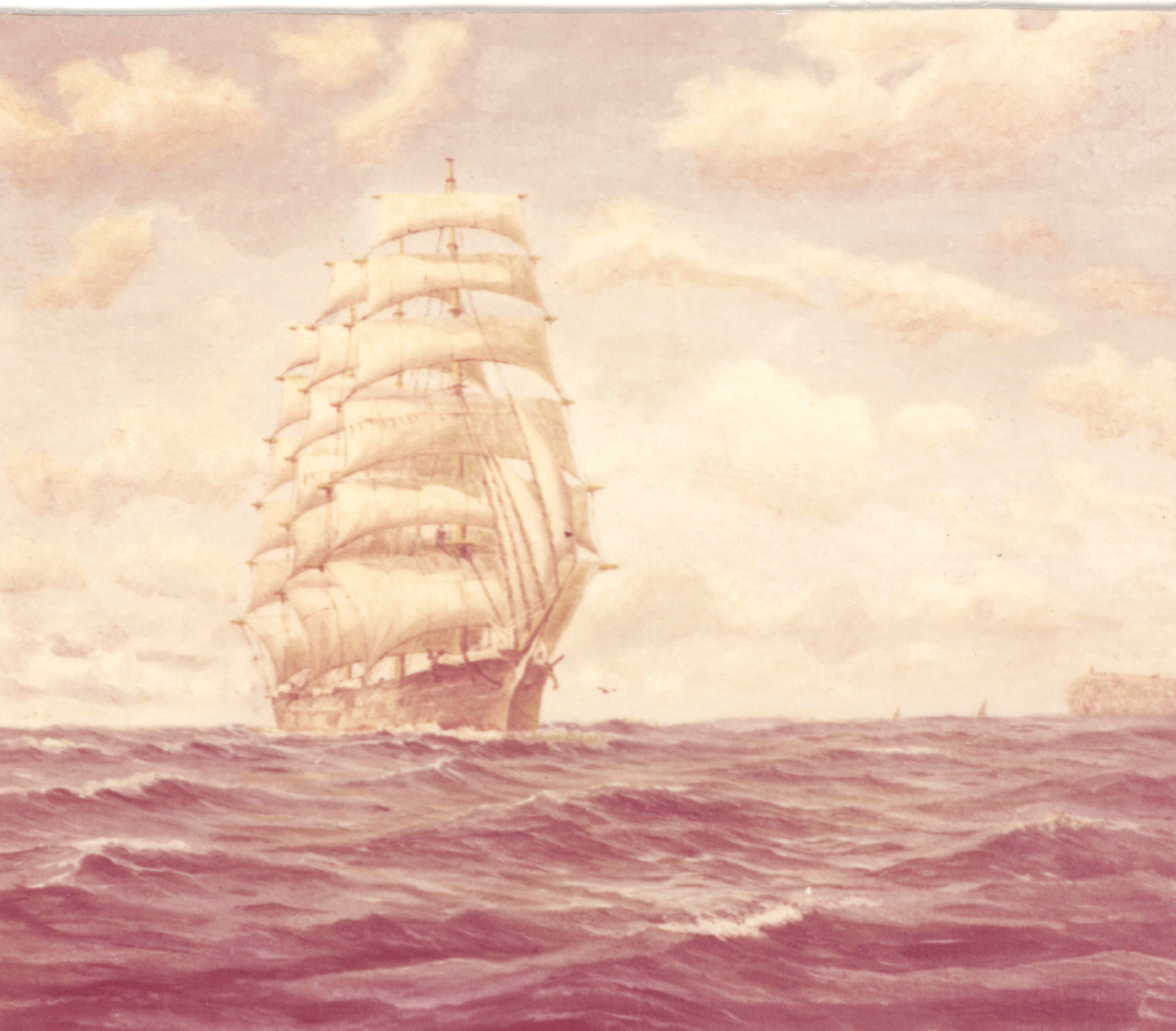 Marine painting by late Frans B. Olsson my father